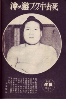 Publication cover announcing Okitsumi's early retirement